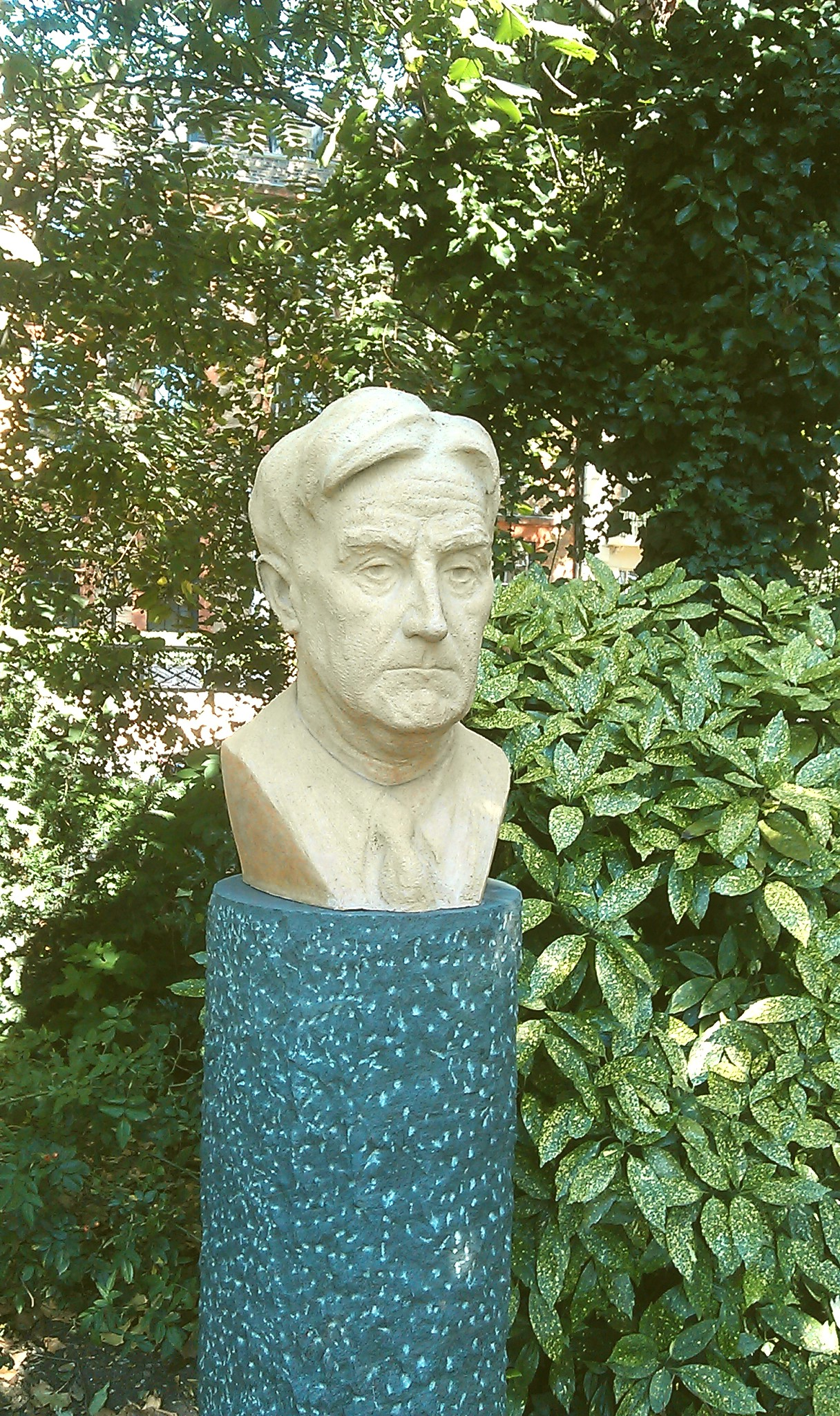 Bust of Ralph Vaughan Williams in Chelsea (London) near the Themse